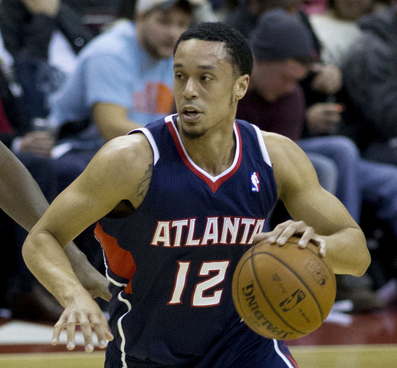 Hawks at Wizards 11/30/13